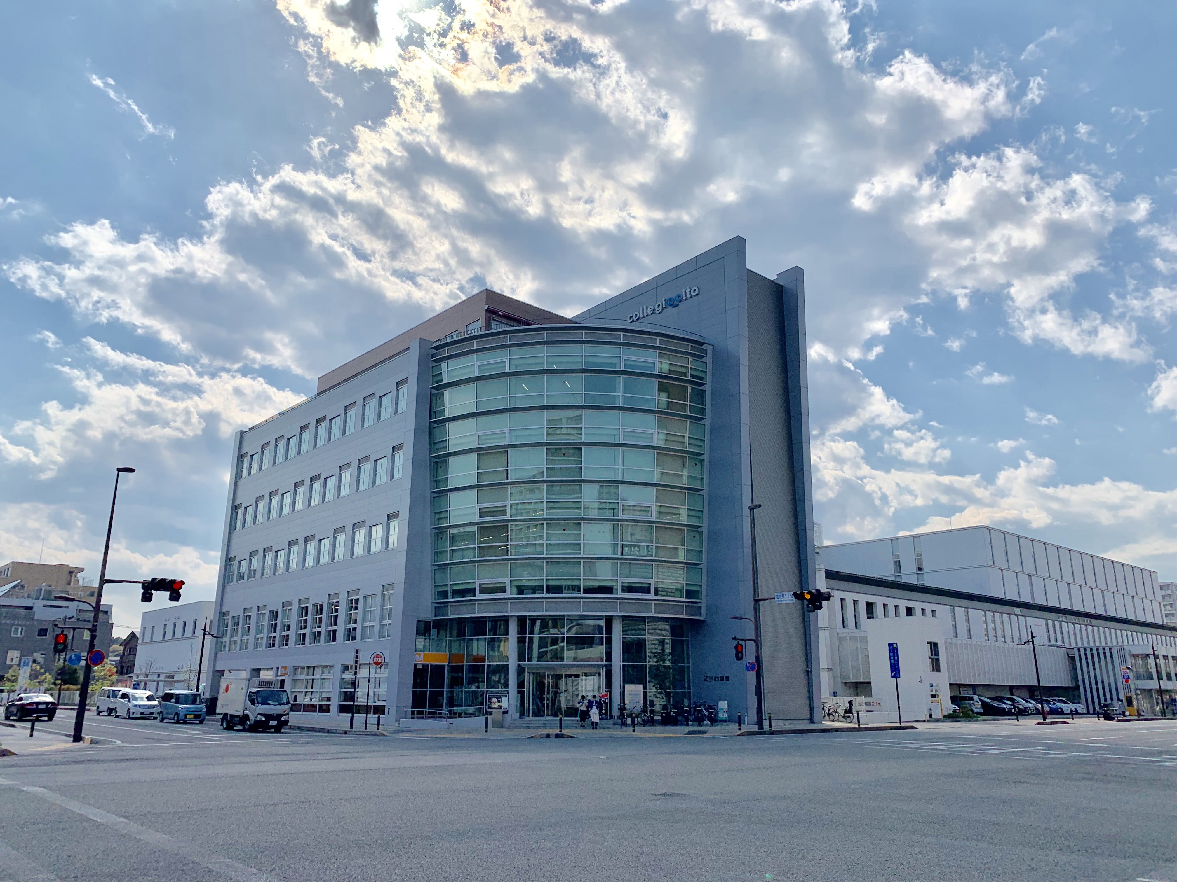 zynas Office